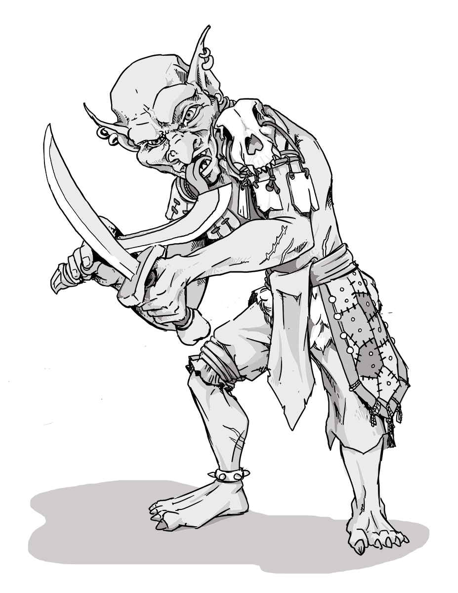 Goblins in Dungeons & Dragons are influenced by the goblins in the works of J.R.R. Tolkien. Unlike the goblins in Tolkien's works, the goblins of D&D are a separate race from orcs; instead, they are a part of the related species collectively referred to as goblinoids